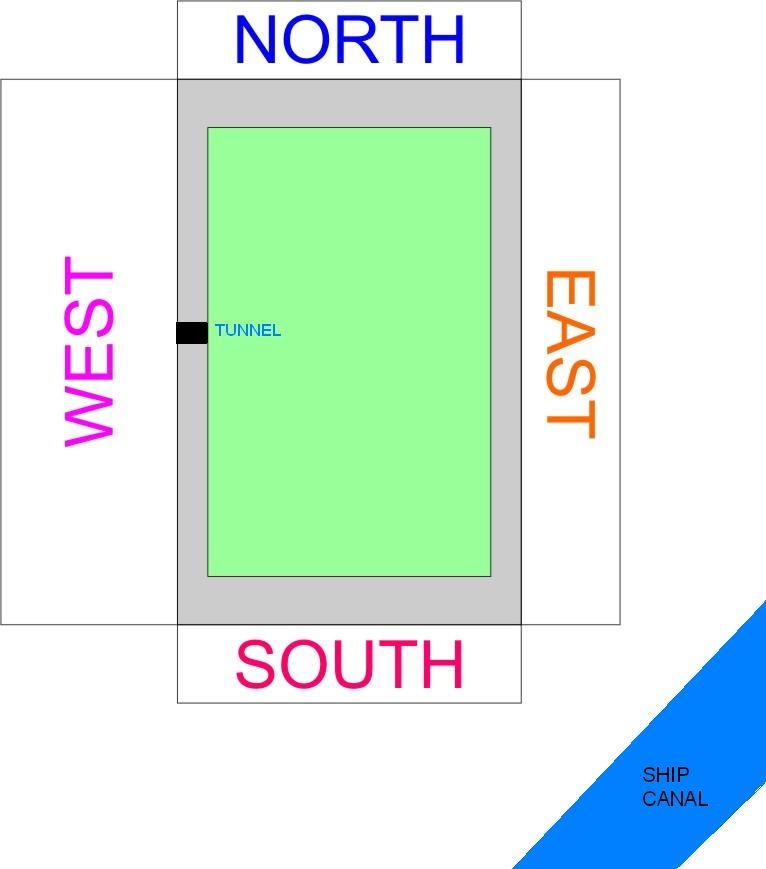 Salford City Stadium layout